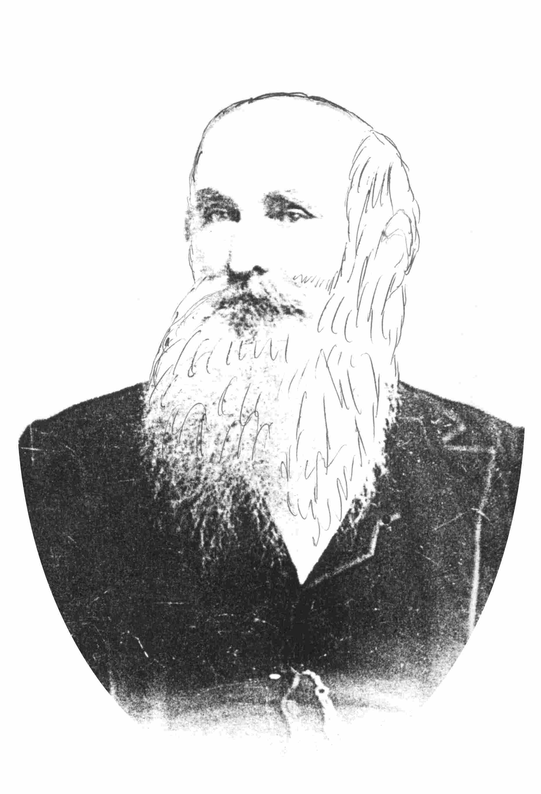 Bethel Coopwood, a Confederate officer who fought in the Arizona Campaign of 1861-62.